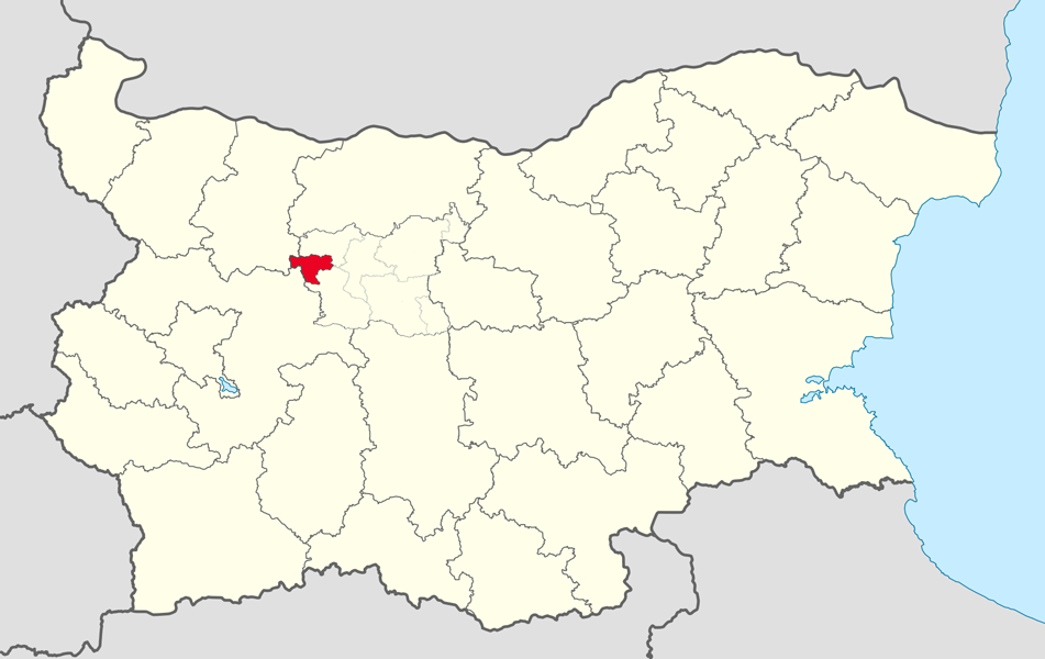 Location map of Yablanitsa Municipality within Bulgaria and Lovech Province. Equirectangular projection, N/S stretching 130 %. Geographic limits of the map: N: 44.4° N S: 41.1° N W: 22.1° E E: 28.9° E